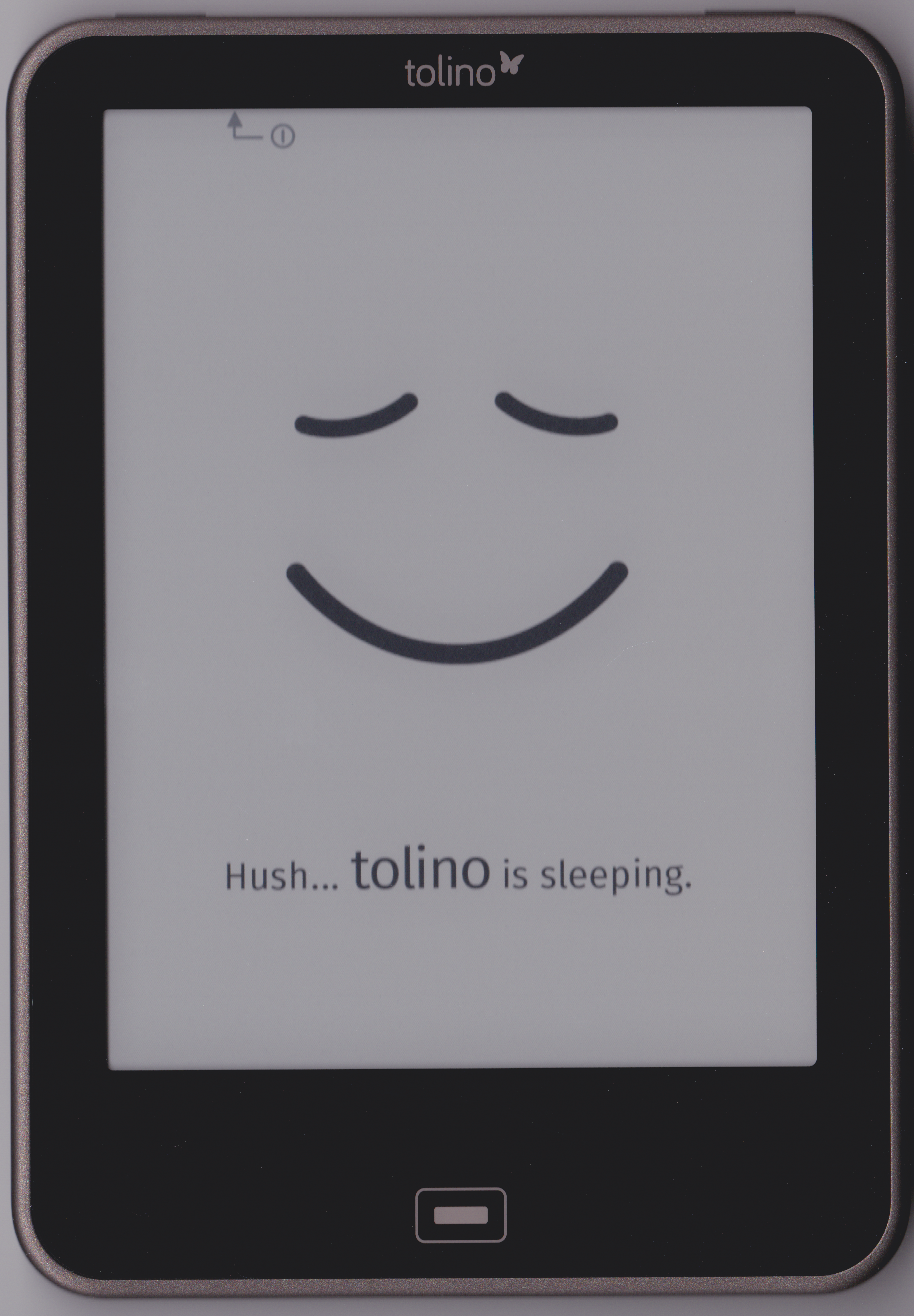 tolino vision E-Book-Reader Front Standby (english)